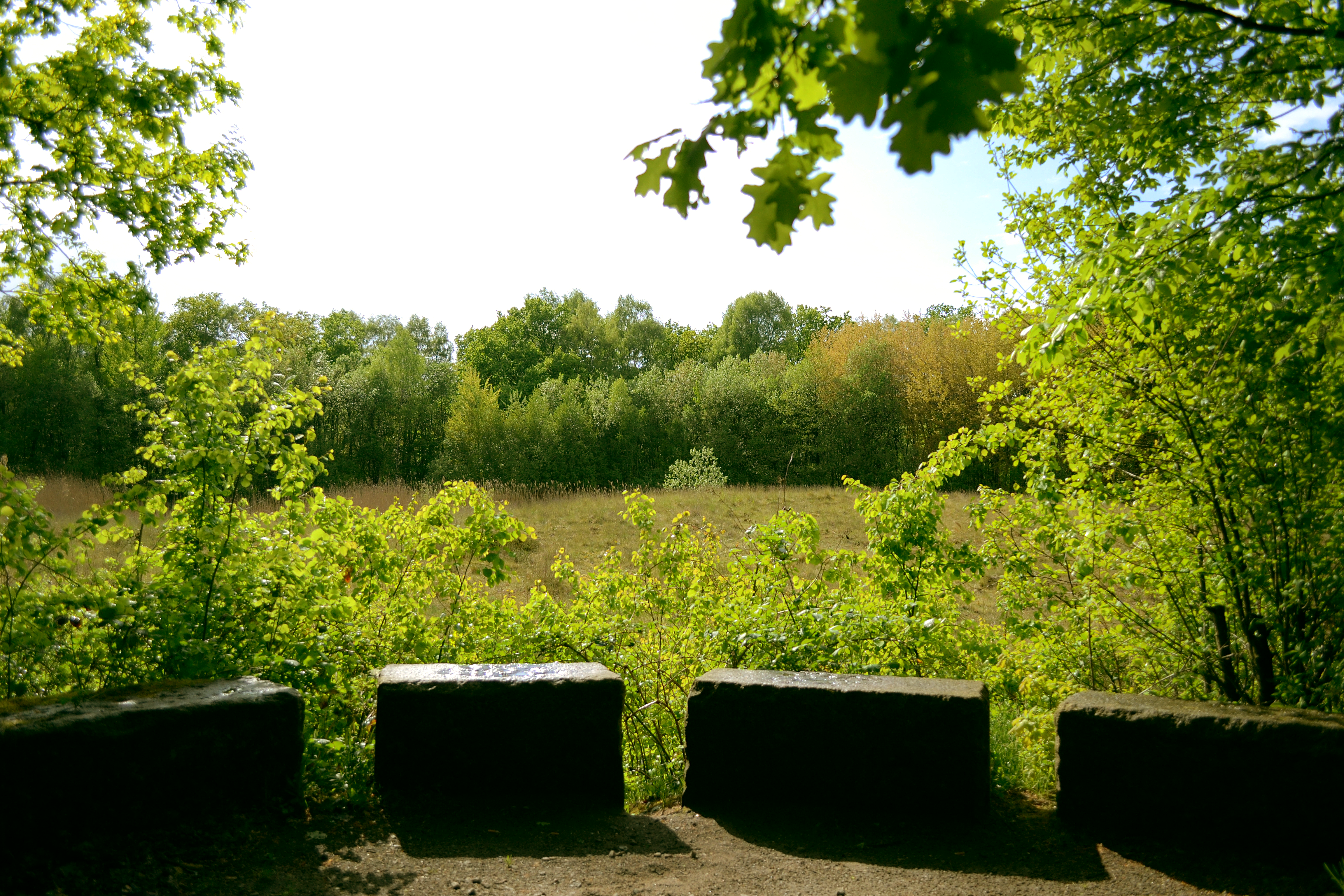 Observations platform and view at the Rothsteinsmoor, Hamburg, Germany